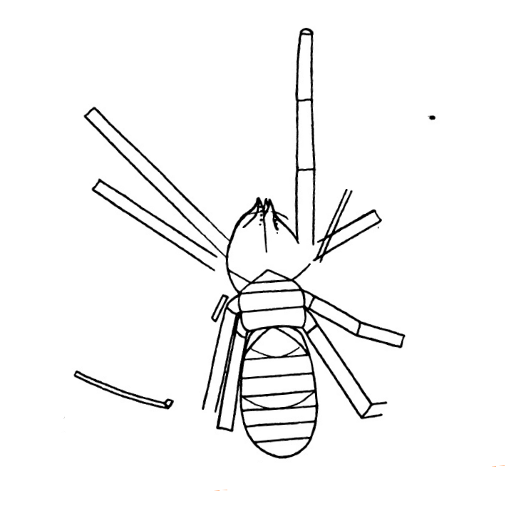 A monograph of the terrestrial Palaeozoic Arachnida of North America